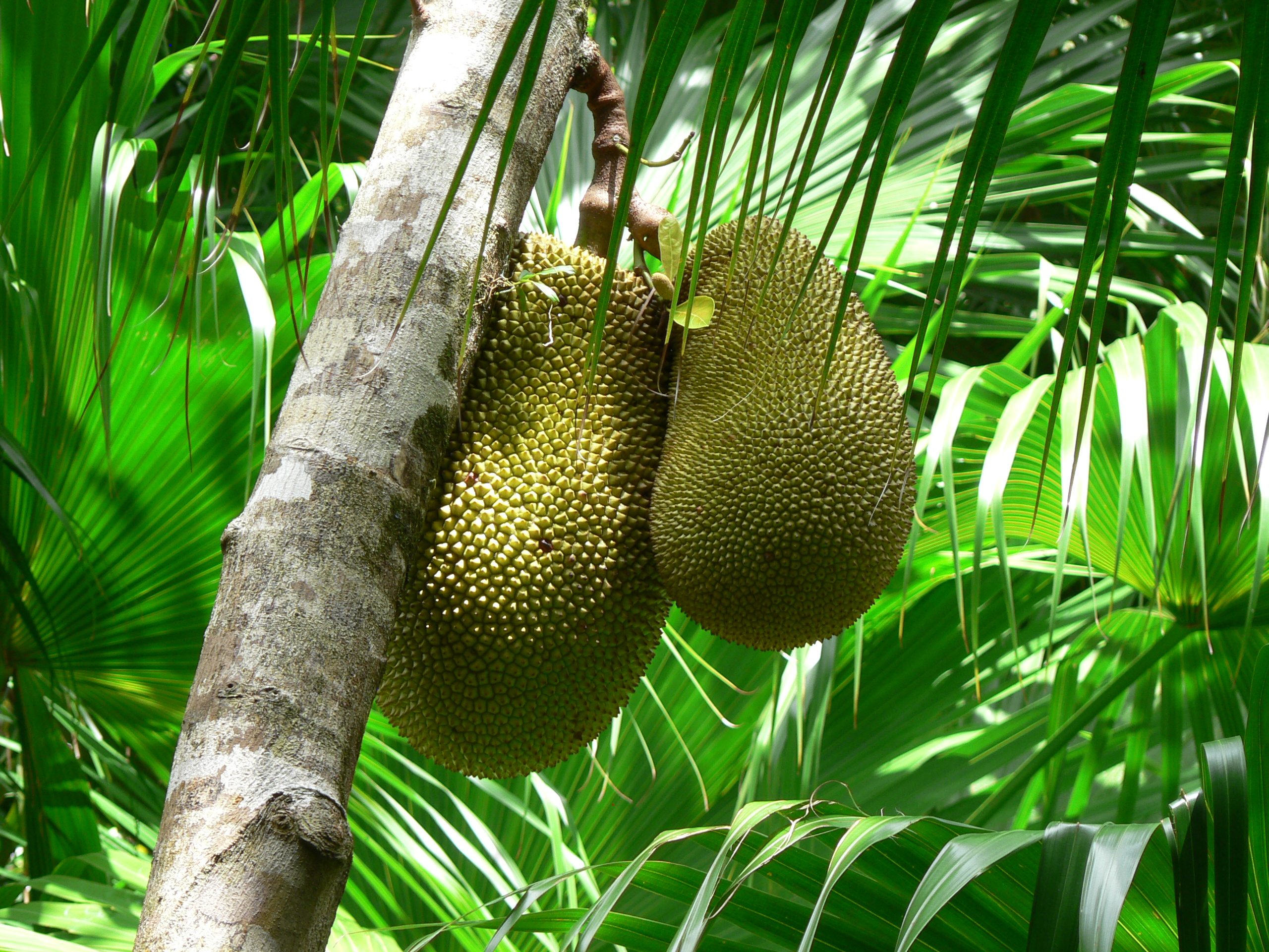 Jackfruit tree with fruit